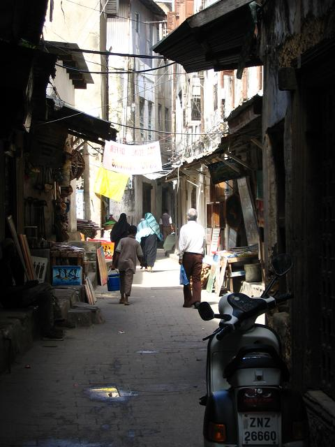 A small street in Stone Town, Zanzibar.